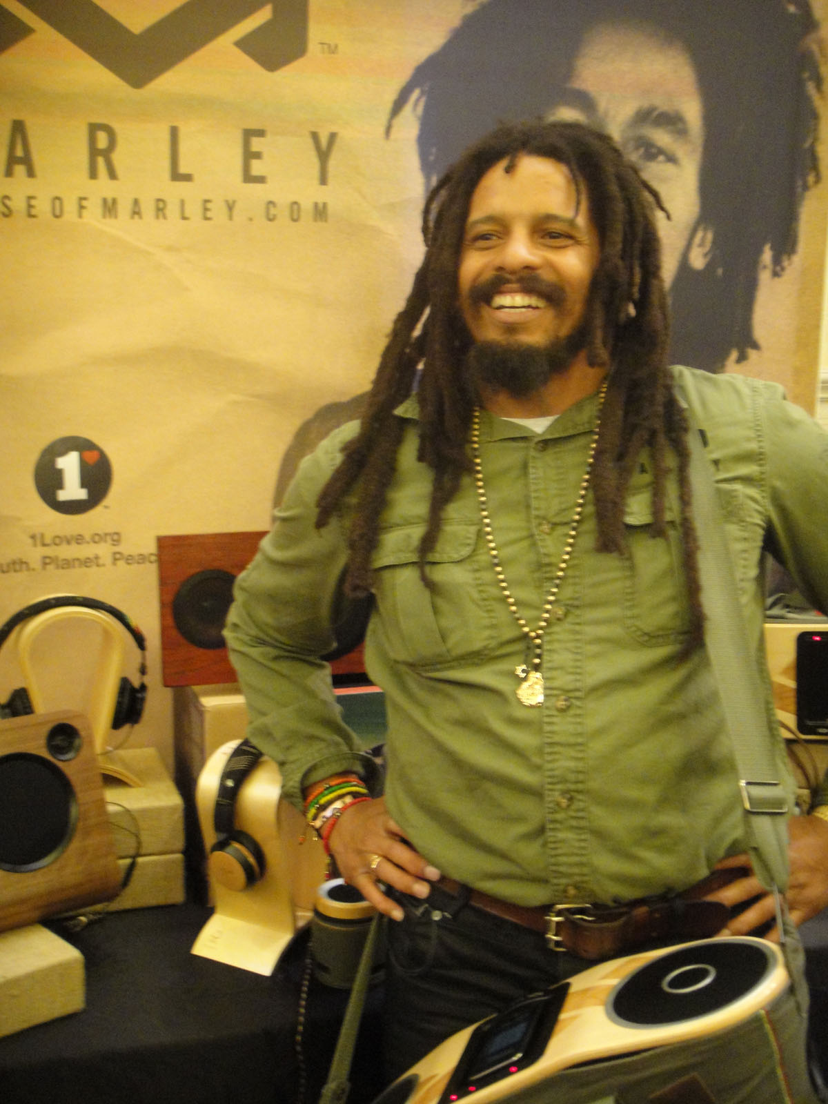 photo 2012 taken by Doug Kline If you're interested in higher resolution versions of my images, contact me via my profile page.